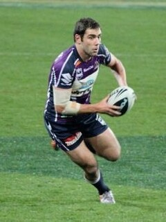 Cameron Smith playing for the melbourne storm vs panthers 2010